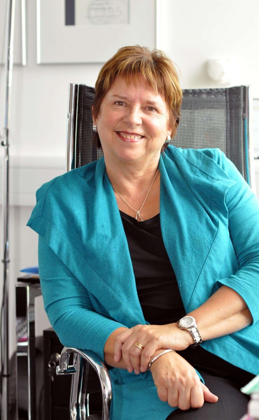 Portrait photograph of Dame Professor Wendy Hall